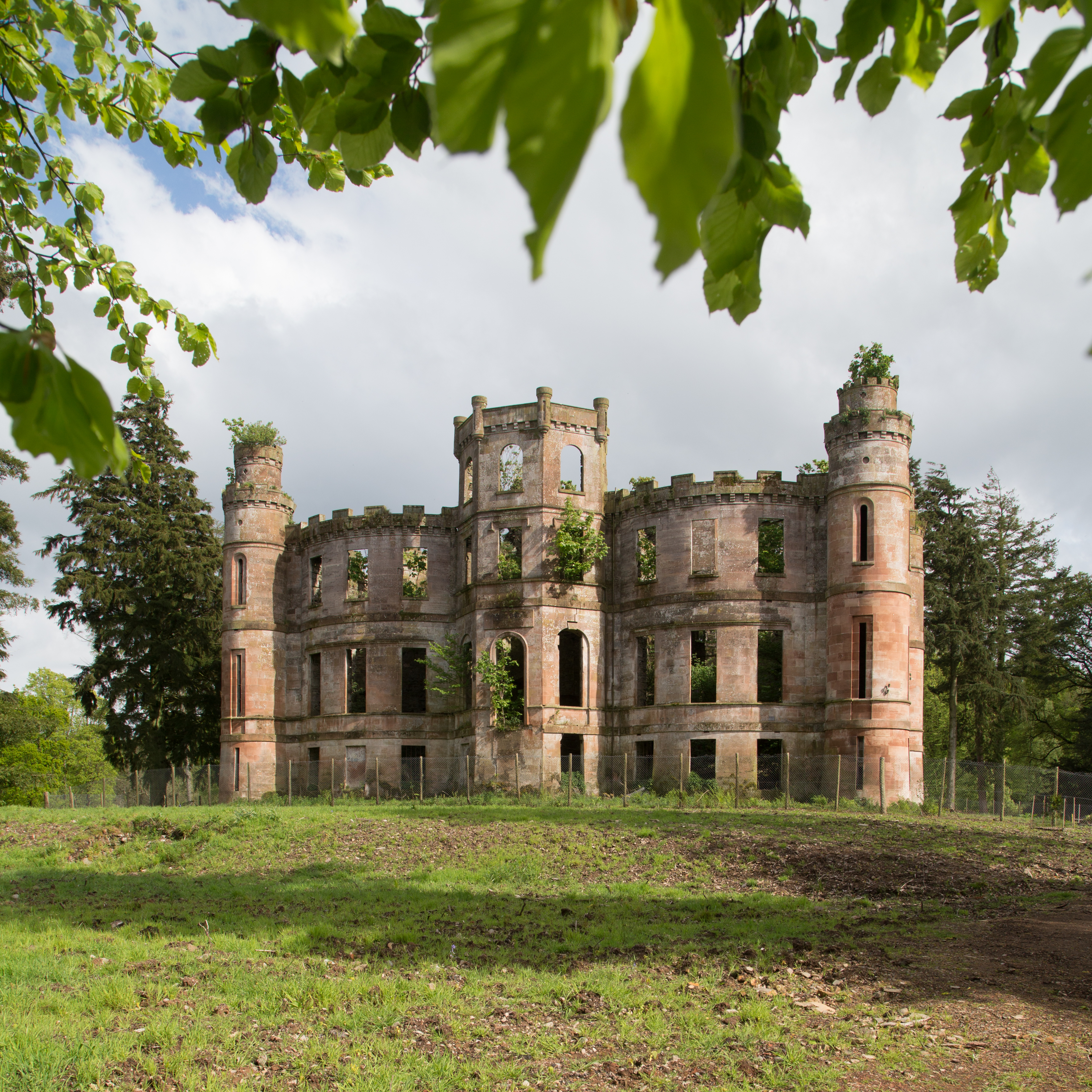 Gelston Castle Wikidata has entry Q17570703 with data related to this item.